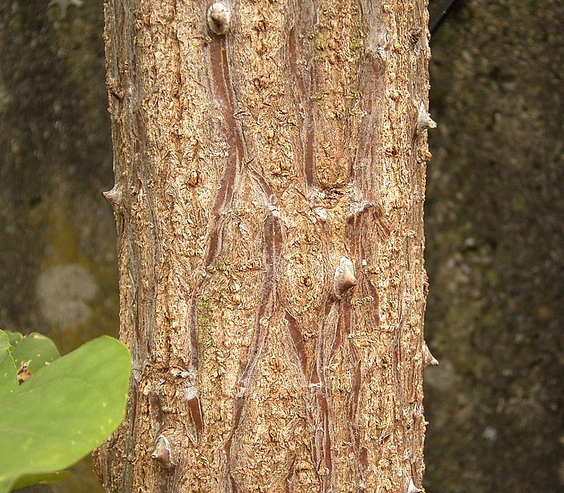 Bark texture of the Coast Coral Tree IsiXhosa: umSintsi IsiZulu: umSinsi